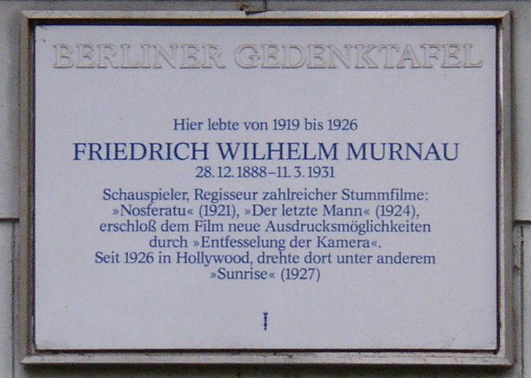 Berlin memorial plaque for Friedrich Wilhelm Murnau in Berlin-Grunewald, Germany